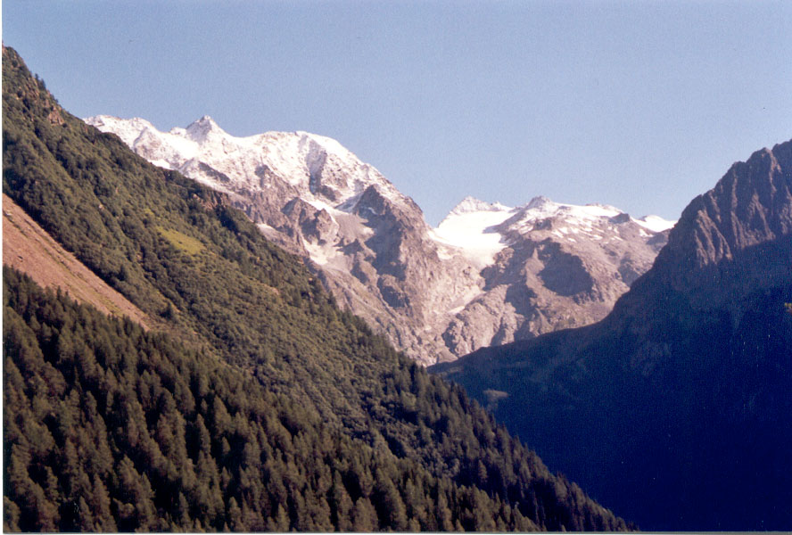 Adamello mountains: view from Ponte di Legno with Mount Mandrone (3281 m)